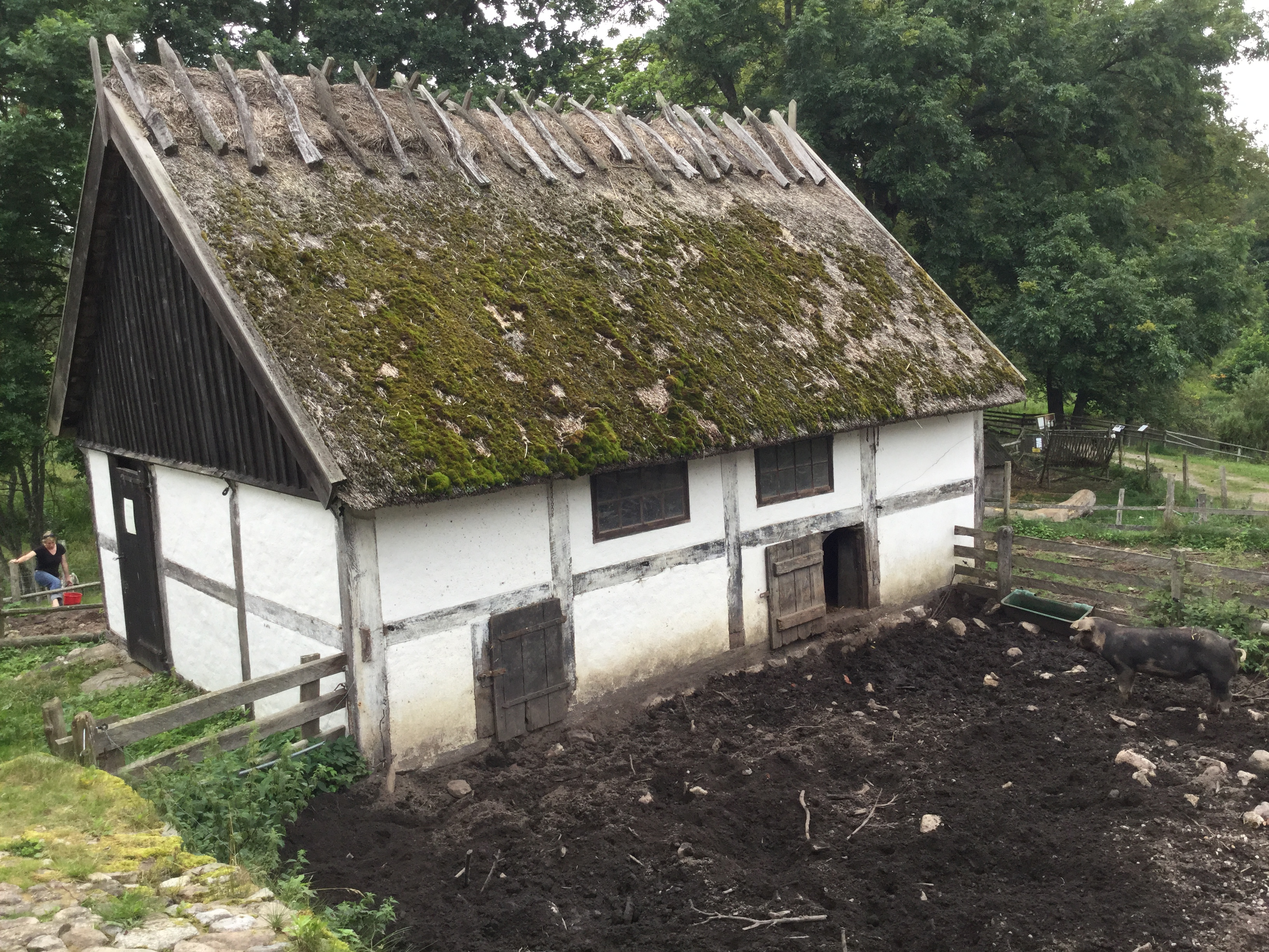 A pigsty in Kulturen's Östarp, an agricultural setting and open-aiir museum in Sjöbo Municipality, Skåne County, Sweden. Tuesday, August 1, 2017.